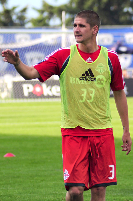 Photo of soccer player, Carl Robinson.